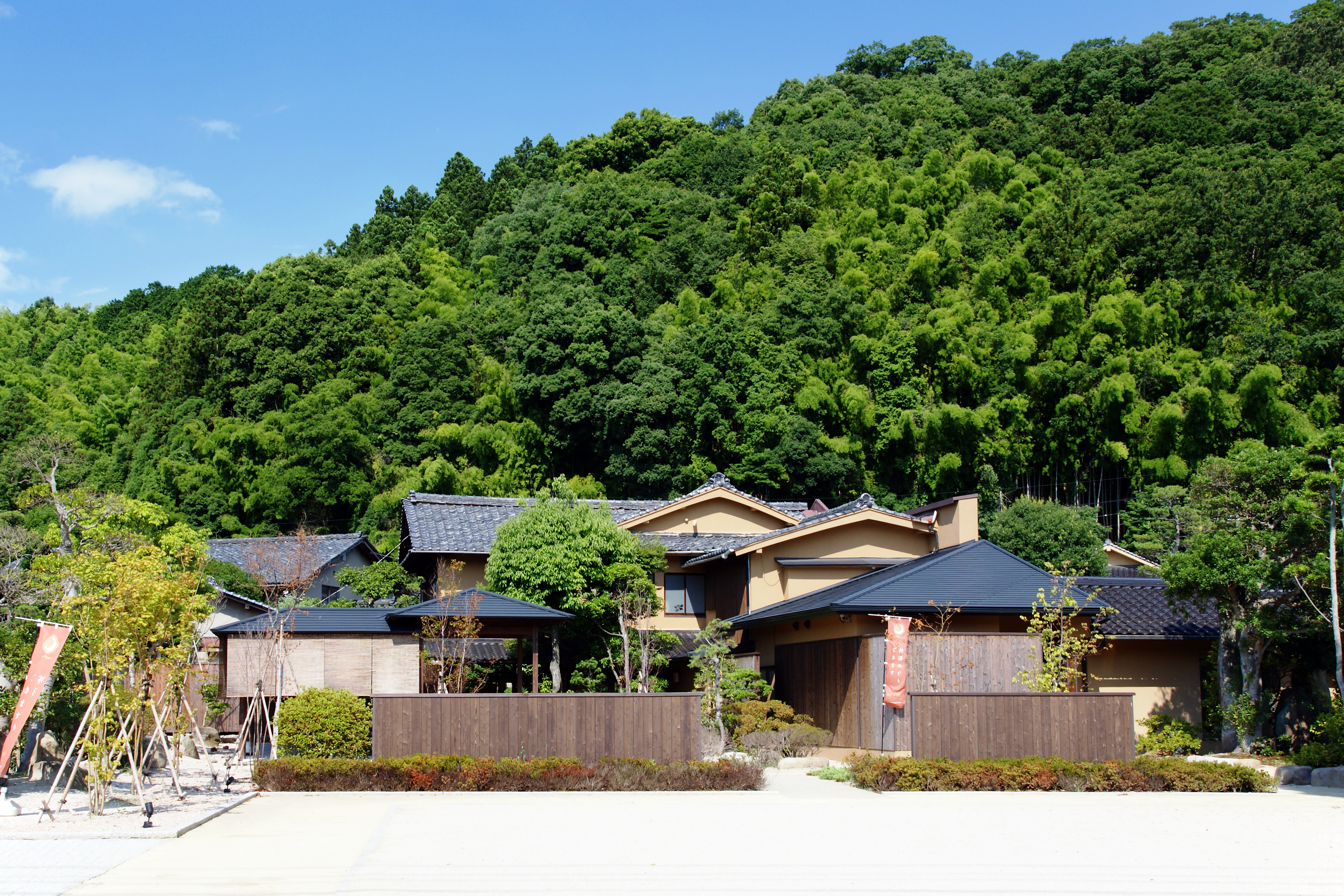 At Tamatsukuri Onsen, Matsue, Shimane prefecture, Japan